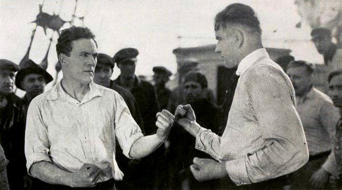 Still from the American film Cappy Ricks (1921) with Thomas Meighan (left) and unidentified actor, on page 168 of Peter Milne, Motion Picture Directing; The Facts and Theories of the Newest Art (1922).